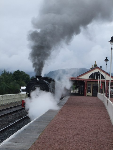 Train leaving Aviemore Station This is the train on the Strathspey Steam Railway bound for Boat of Garten and terminating at Broomhill station. I believe the engine is a J99 saddletank.